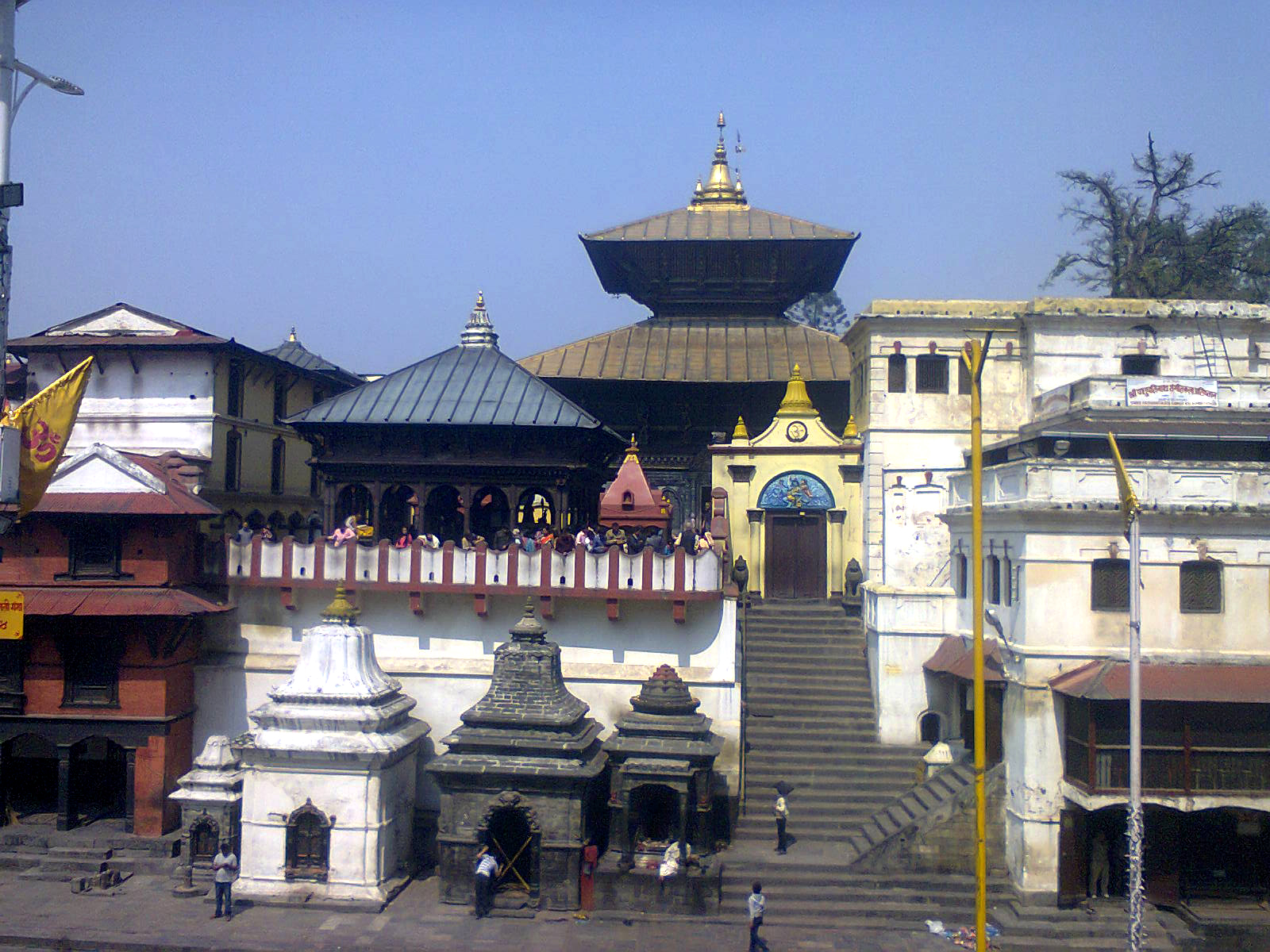 पशुपतिनाथ मन्दिर